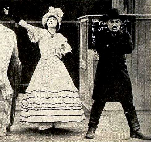 Cropped still from the American comedy film Uncle Tom Without a Cabin (1919) with Marie Prevost and Heinie Conklin, on page 22 of the November 1919 Film Fun. The film has a theater production of the play "Uncle Tom's Cabin" with Prevost as Eliza and Conklin as Simon Legree.